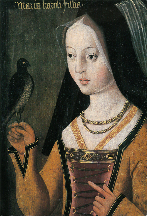 Portrait of Mary of Burgundy (1457-1482)